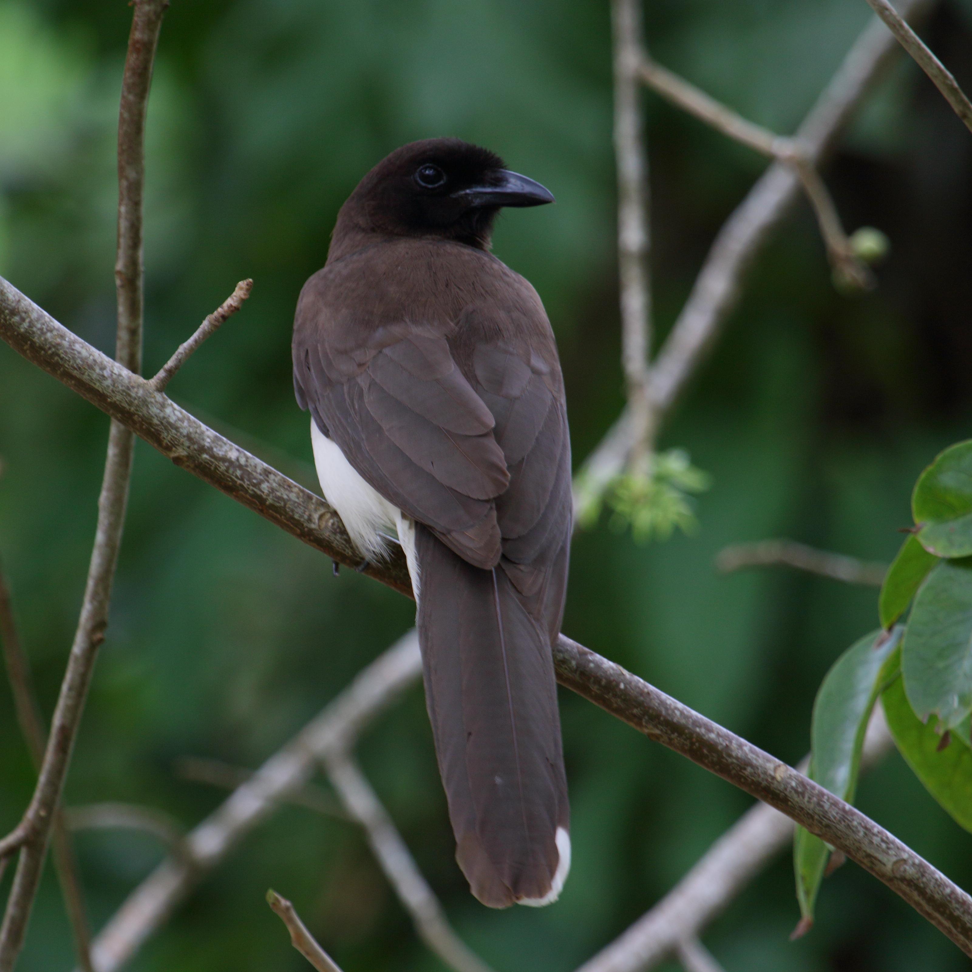 Brown jay, Lamanai, Belize